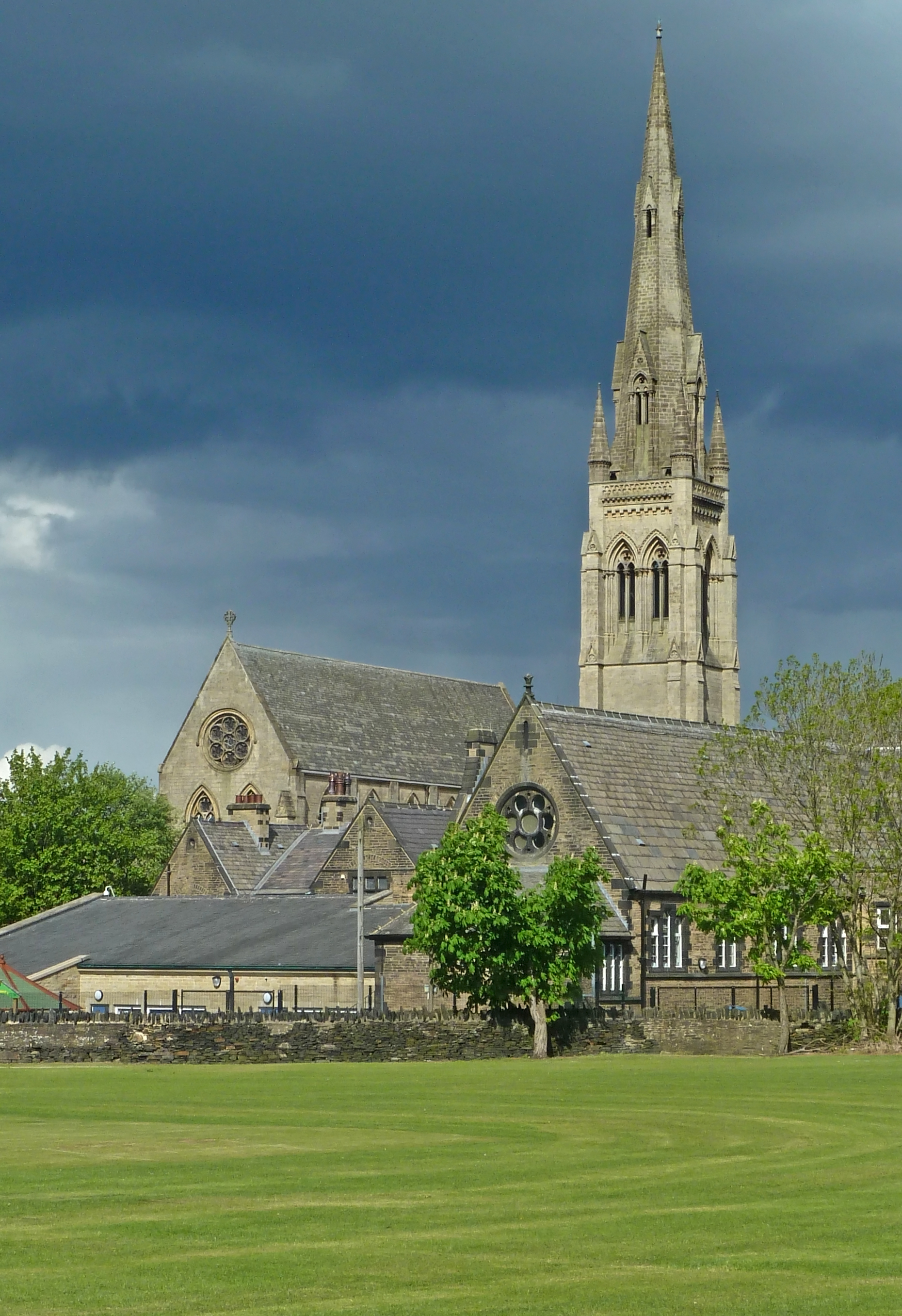 All Saints' parish church, Little Horton Green, Bradford, West Yorkshire, seen from the southwest